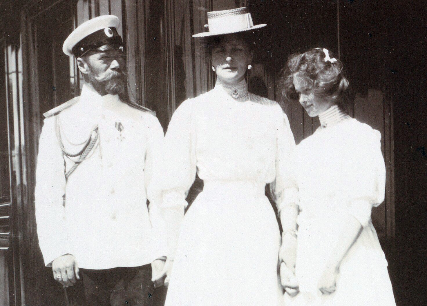 Nicholas II, Empress Alexandra, Grand Duchess Olga